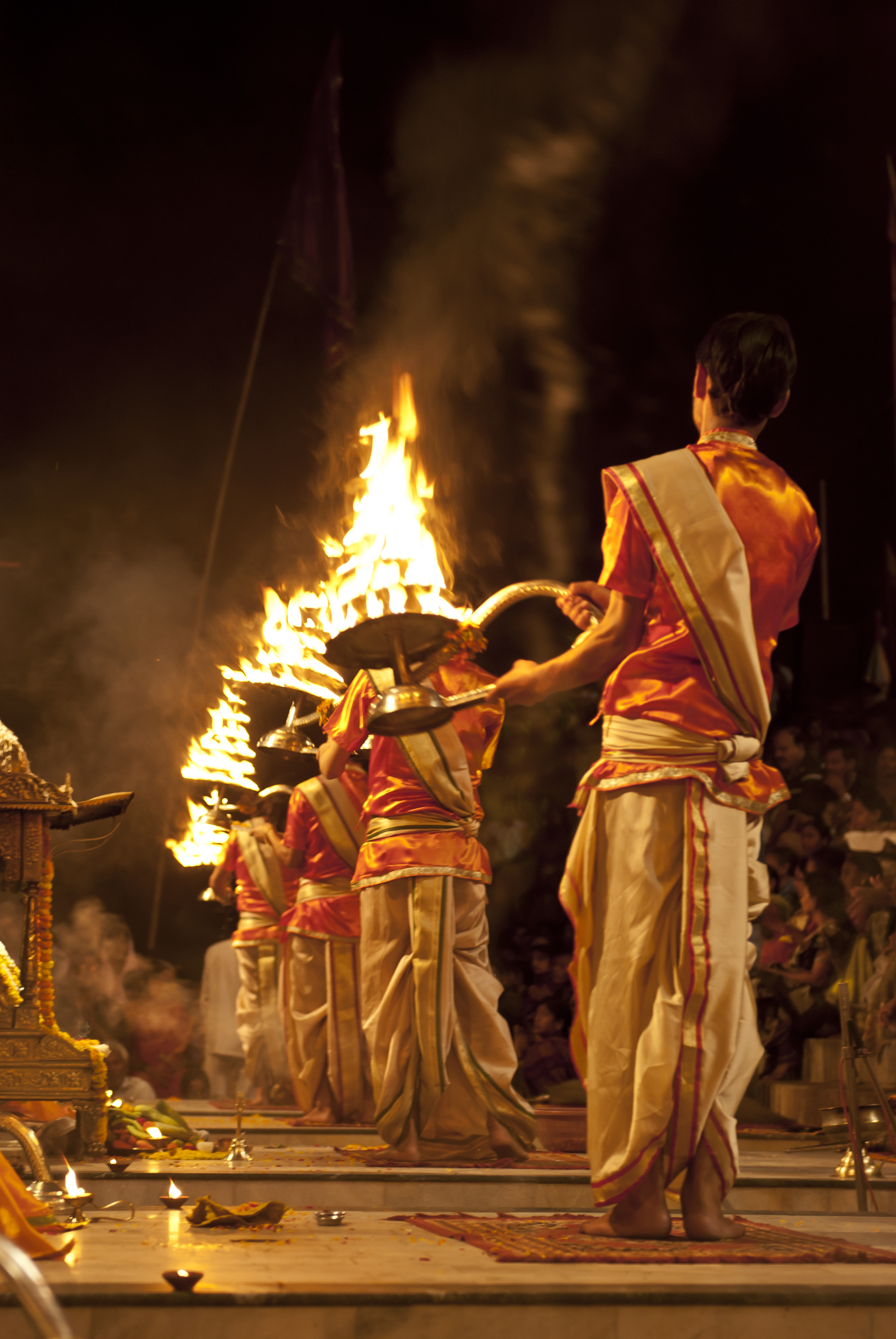 Ganga Aarathi DashashwaMedh Ghat, Varanasi